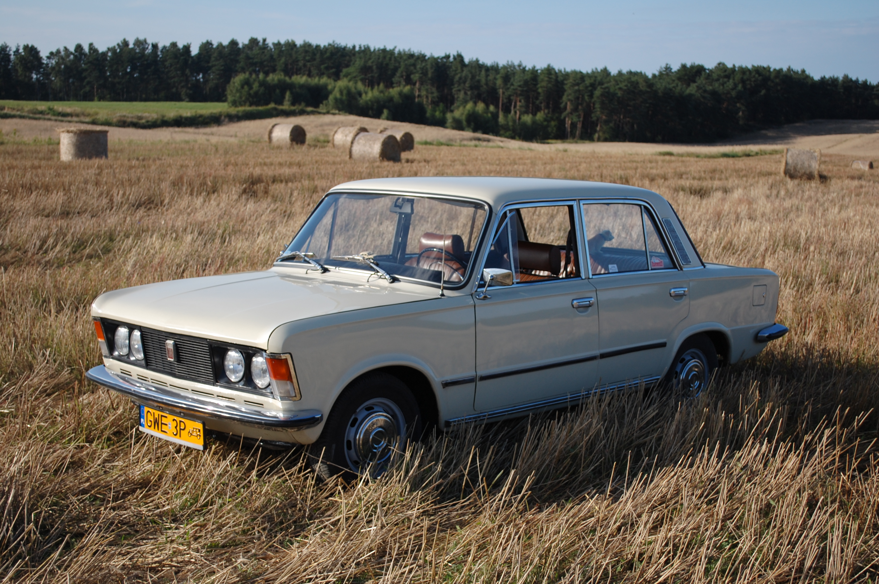 Wikidata has entry Q618492 with data related to this item.